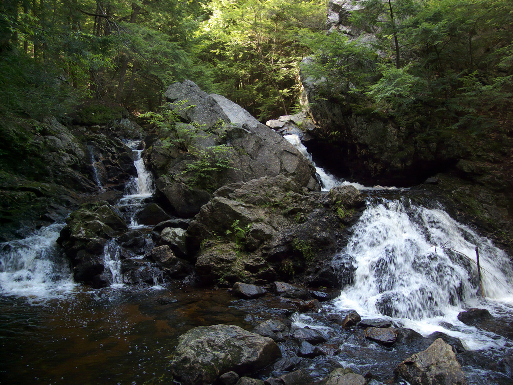 (CC-BY/-SA license) Bear's Den, New Salem, MA image from Flickr Uploaded on August 19, 2008 by Flickr username "ironhelix001"